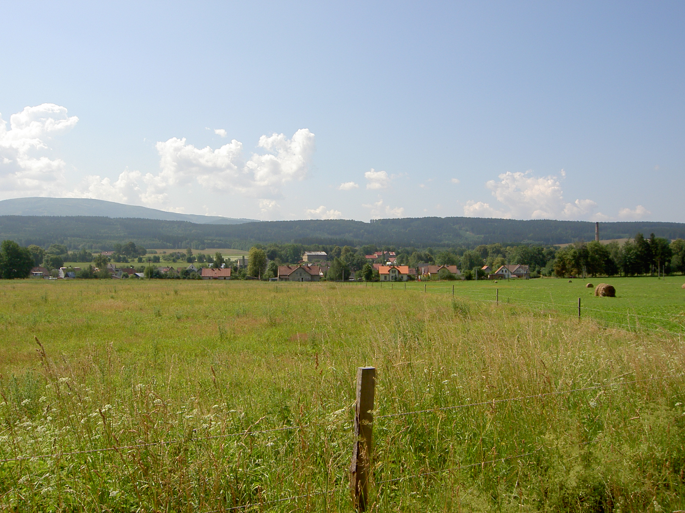 Village Jindřichovice pod Smrkem, Czech Republic, overall view